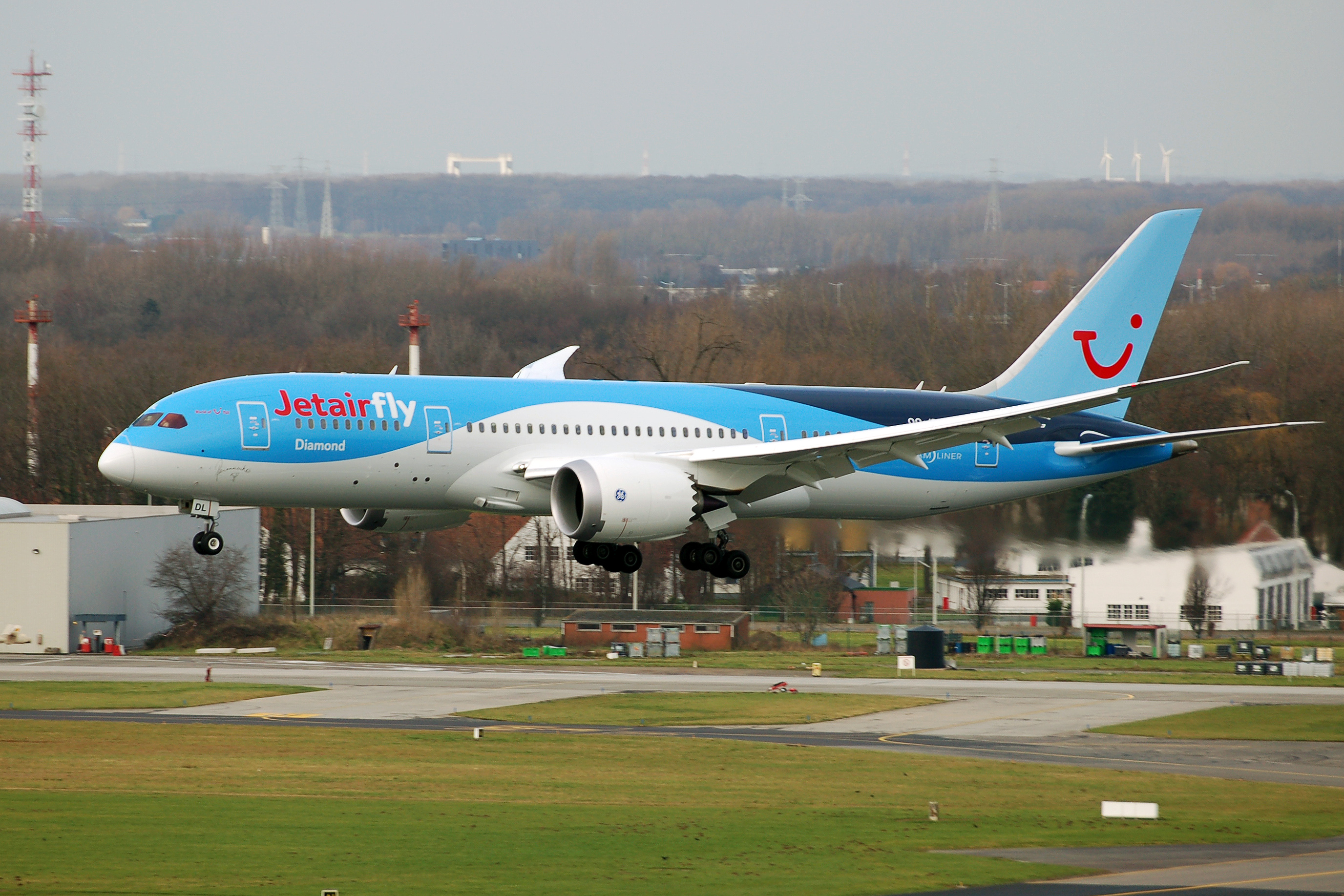 Boeing 787 Dreamliner